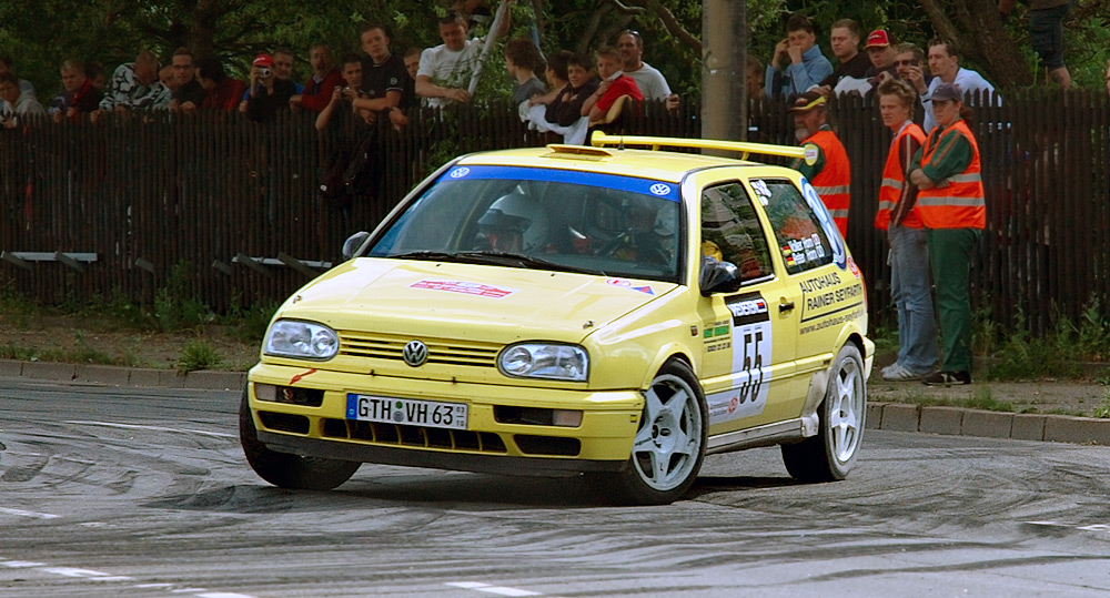 This image shows a VW Golf 3. This photo has been taken during the Saxony rally racing 2005 in Zwickau (Germany).